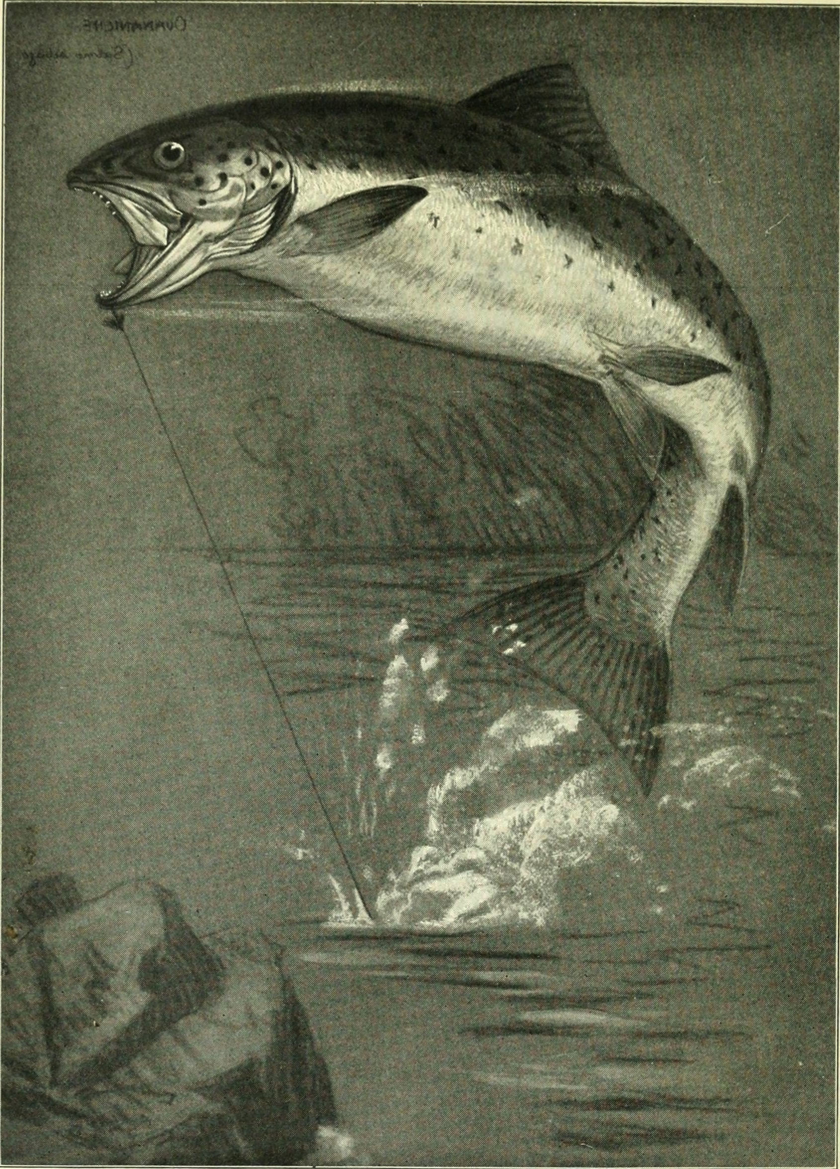 Hooked landlocked Atlantic salmon, Salmo salar sebago Flipped version of this